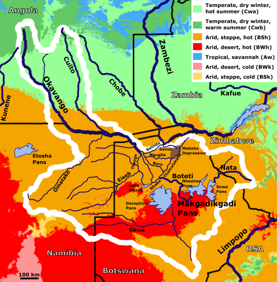 The catchment area of the Makgadikgadi pans underlays with climate zones according to Koeppen - Geiger